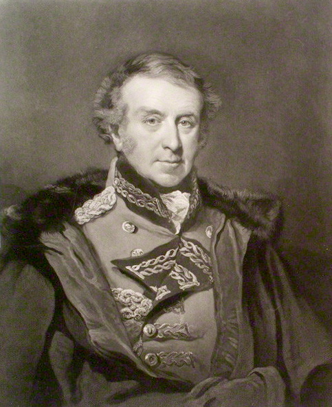 Hew Whitefoord Dalrymple portrait by and published by Charles Turner, after John Jackson mezzotint, published 24 January 1831 (1829) 13 7/8 in. x 10 in. (354 mm x 253 mm) plate size; 14 1/8 in. x 10 1/4 in. (359 mm x 259 mm) paper size Bequeathed by Frederick Leverton Harris, 1927.